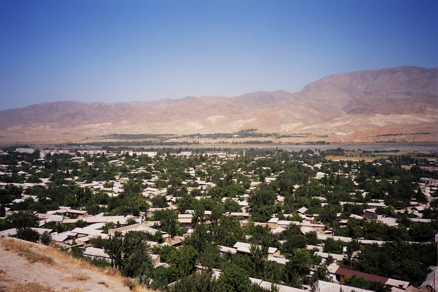 looking over the bluff at the houses of "new" pendzhikent and the turkistan mountains in the background